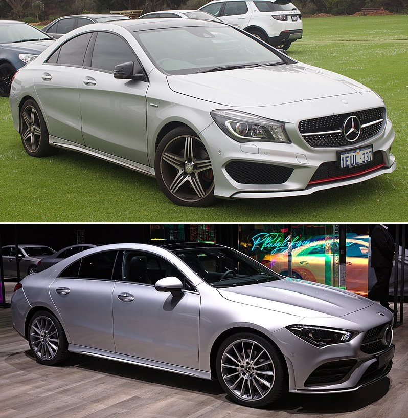 The two series (C118 and C118) of the Mercedes-Benz CLA-Class compared.